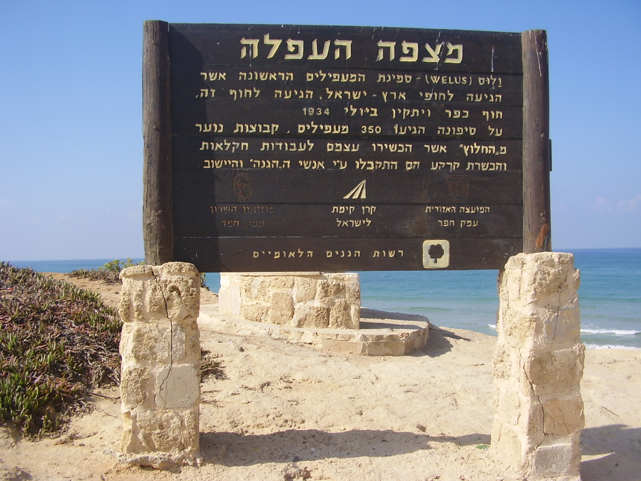 Immigration lookout at Bet Yanay Beach